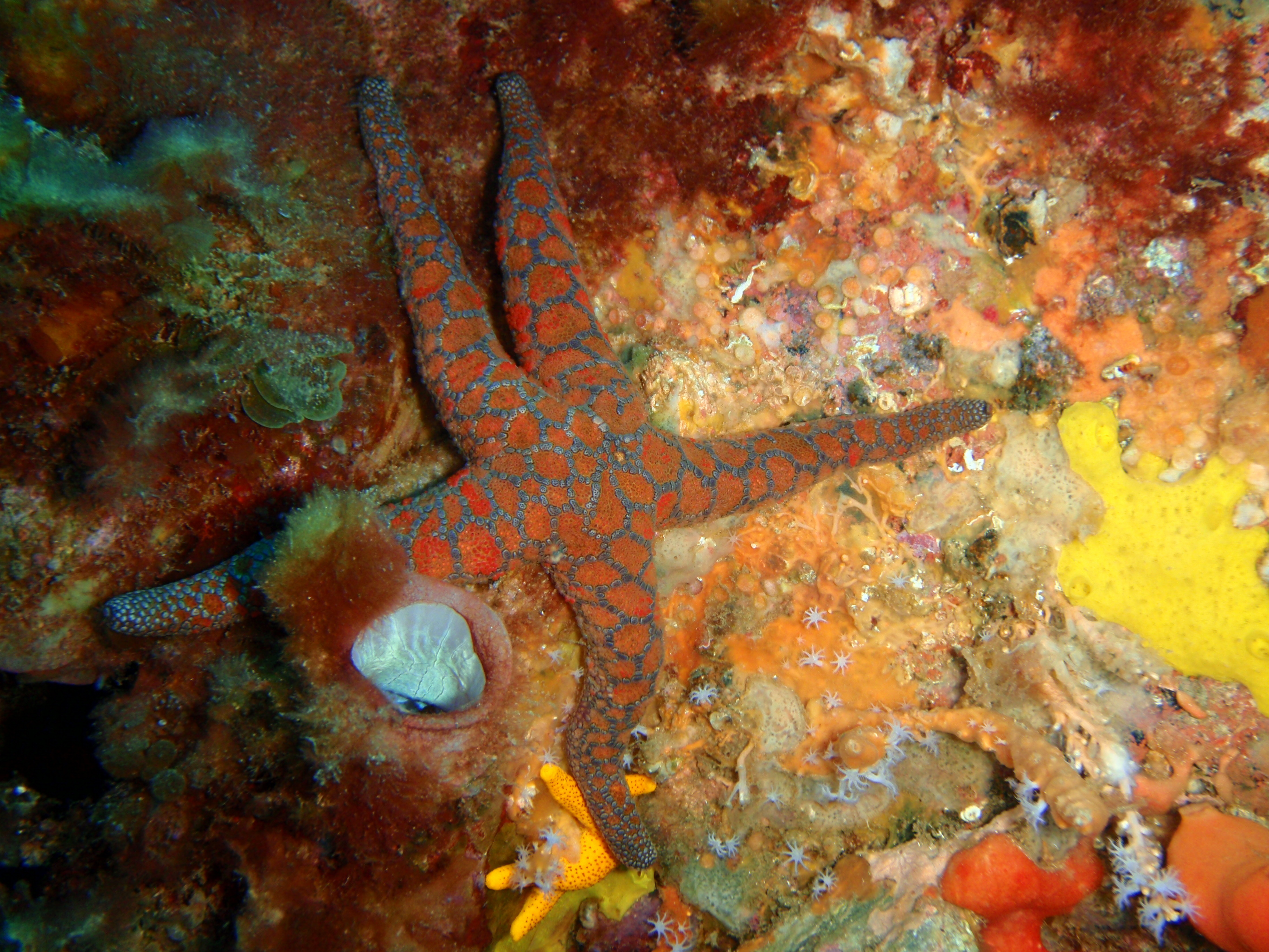 Mosaic seastar Plectaster decanus at the wreck of the Cheynes III near Michaelmas Island, King George Sound, Western Australia